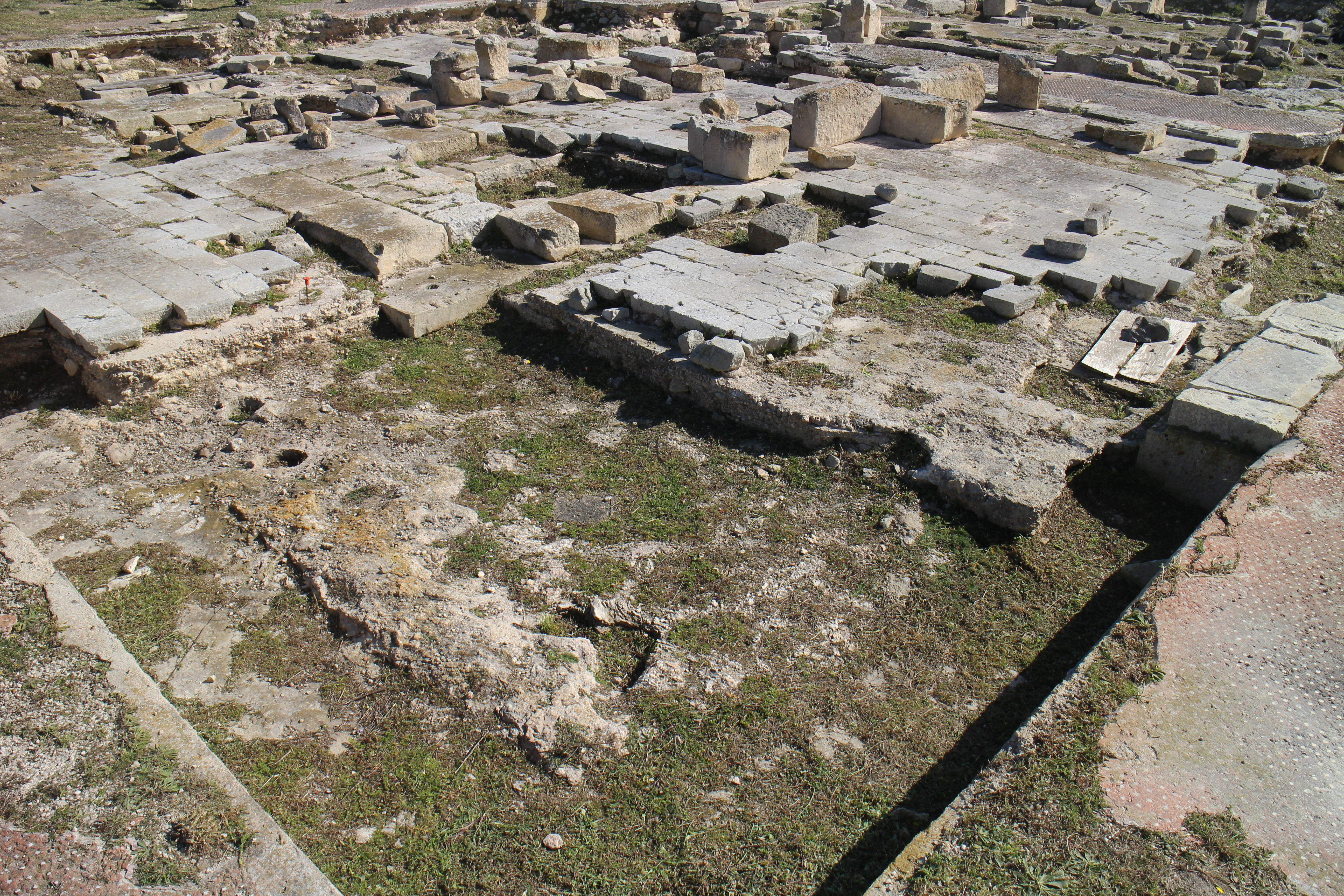 Tas-Silġ Temples, Triq Xrobb l-Għaġin in Marsaxlokk, Malta